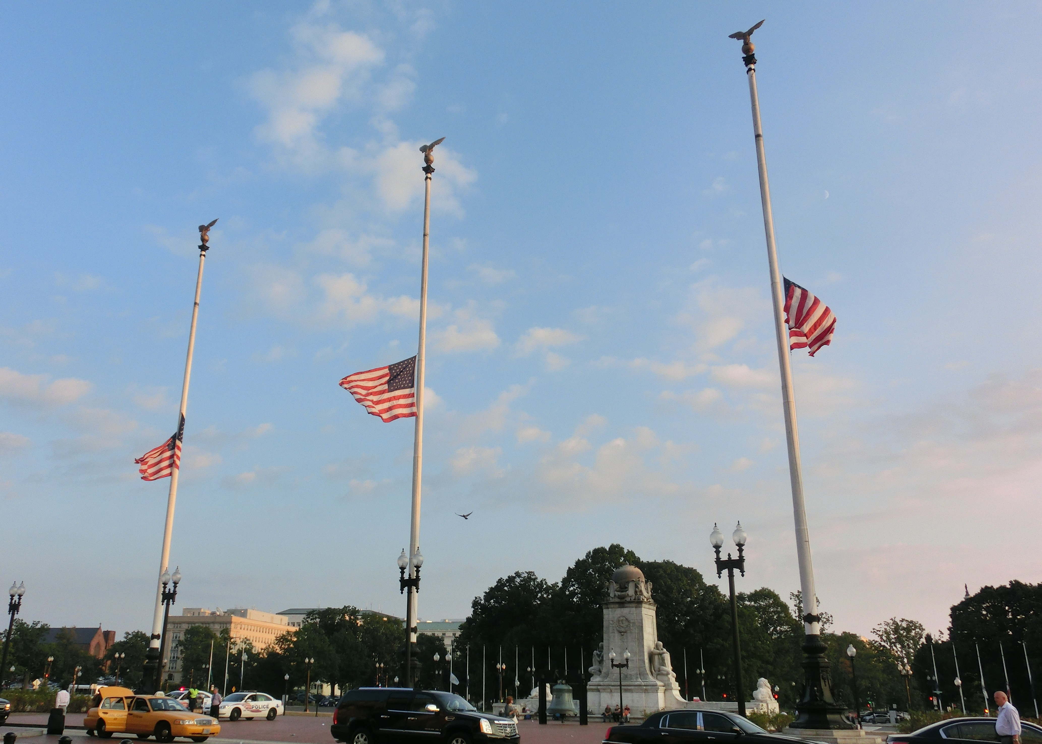 Three American flags fly at half staff on Columbus Circle (outside of Union Station), Washington, D.C., on September 11, 2013. Several state and territory flags can be seen in the background, also at half-staff (see close-up in File:Union Station 2013-09-11 B.JPG).